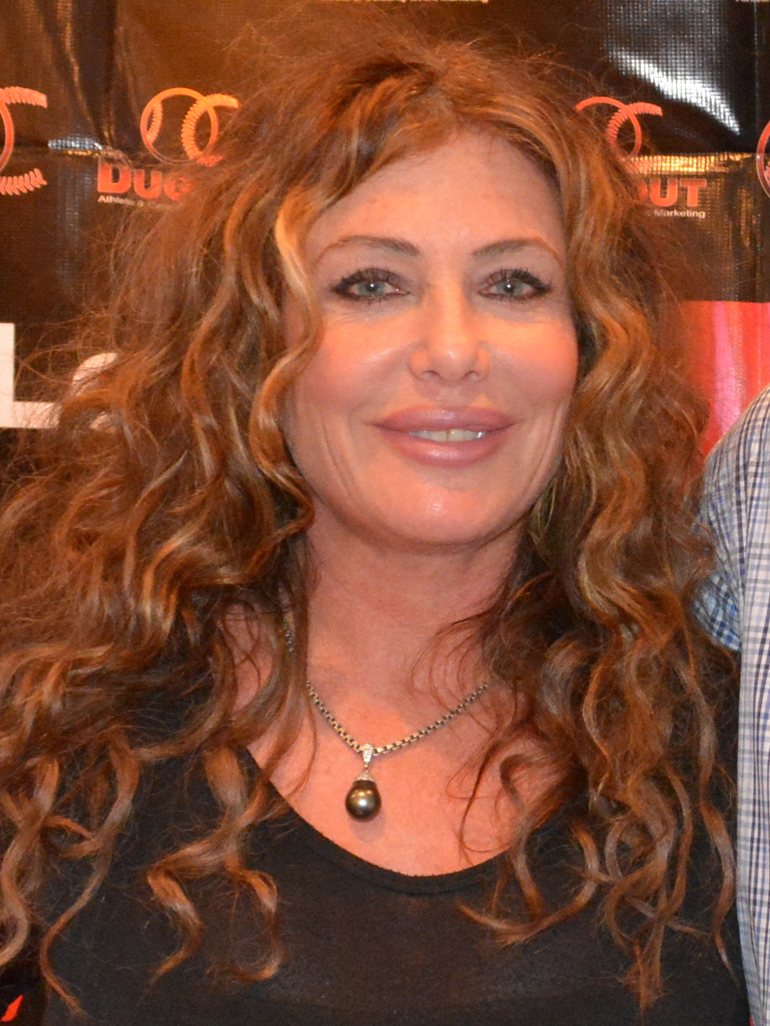 With Greg at the Chiller Theatre Expo at the Sheraton Parsippany Hotel in Parsippany, NJ. Saturday, October 25, 2014. pictured (left to right): Kelly LeBrock and Greg